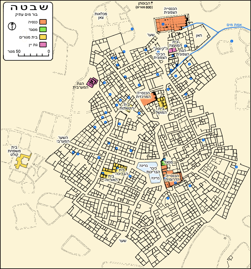 Map of Shivta or Sobota or Subeitah or Subaytah (Hebrew: שבטה) — an archaeological site in the Negev Desert of Israel, east of Nitzana. Site of Byzantine architecture in Israel.